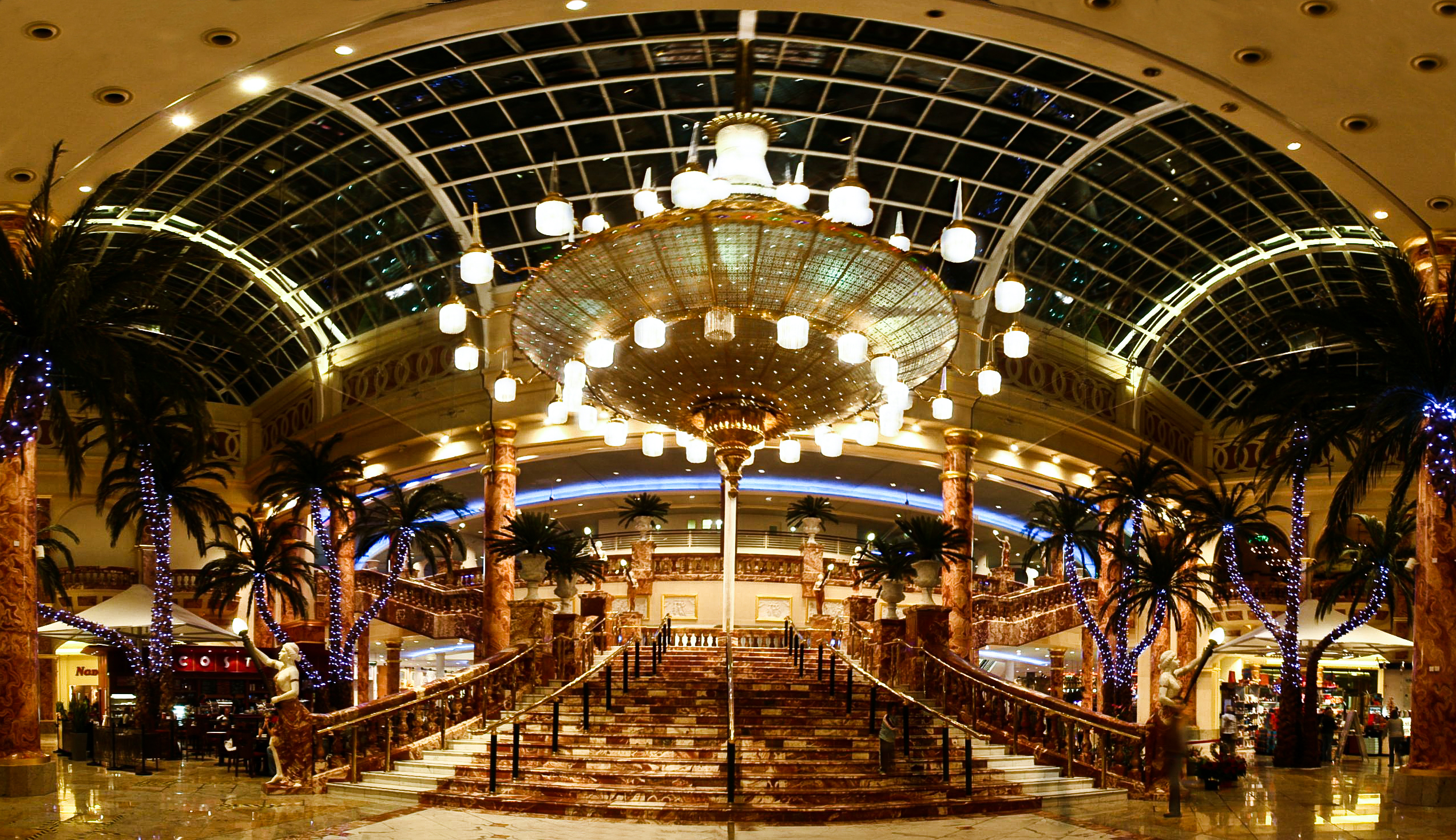 Inside the Trafford Centre, in Greater Manchester, England.